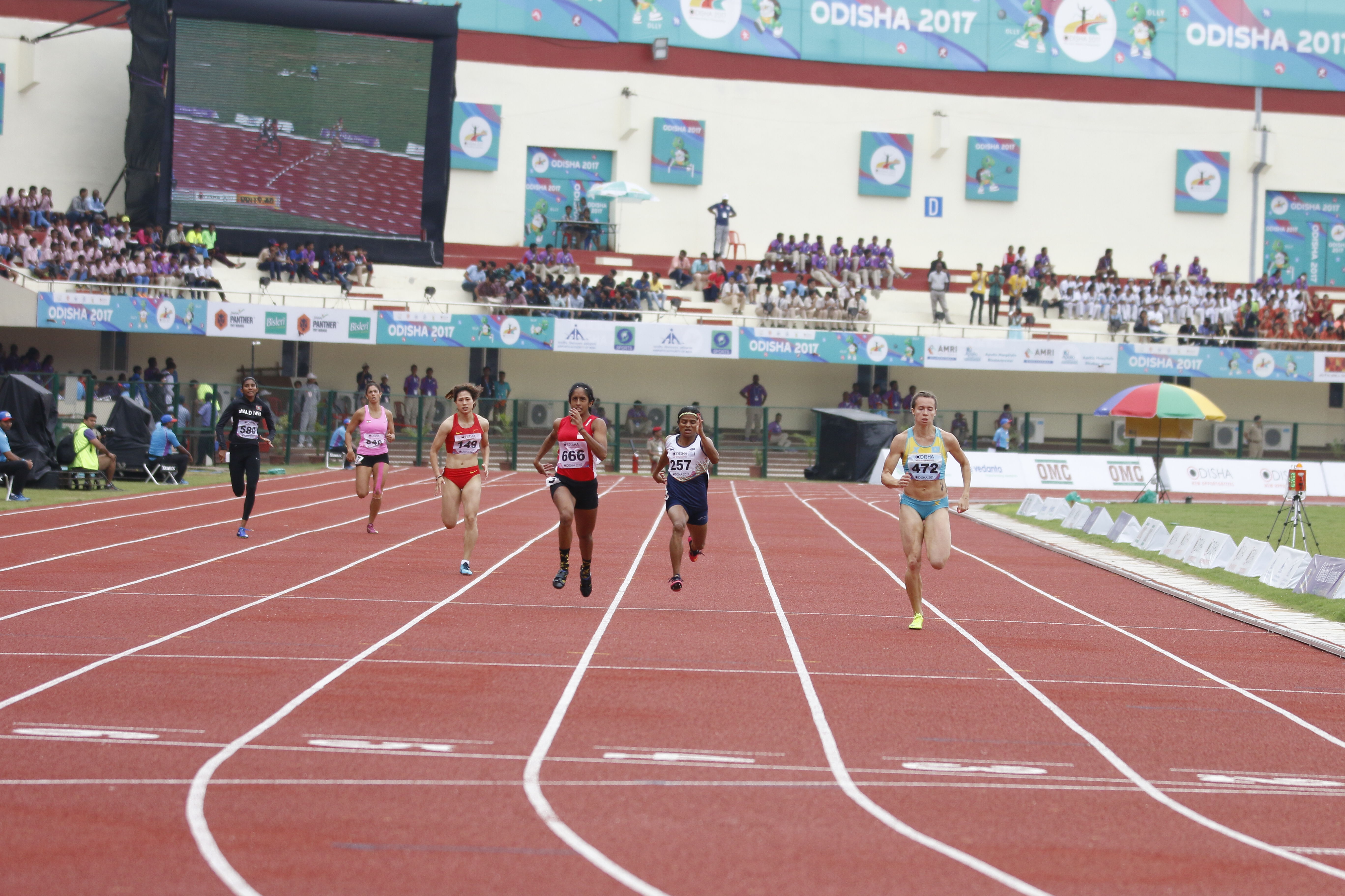 Athletes during 22nd Asian Athletics Championships in Bhubaneswar. inc. Olga Safronova and Afa Ismail